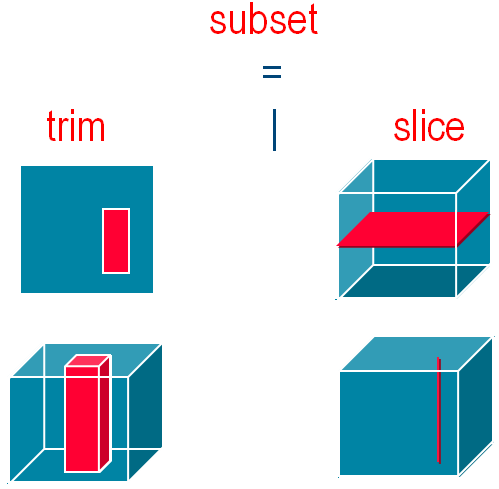 OGC WCS allows, as its Core functionality, extraction of areas from a coverage. This subsetting consists of two variants: Trimming extracts a subset while maintaining the dimension of the coverage, whereas slicing extracts slices, thereby reducing the dimension of the result.